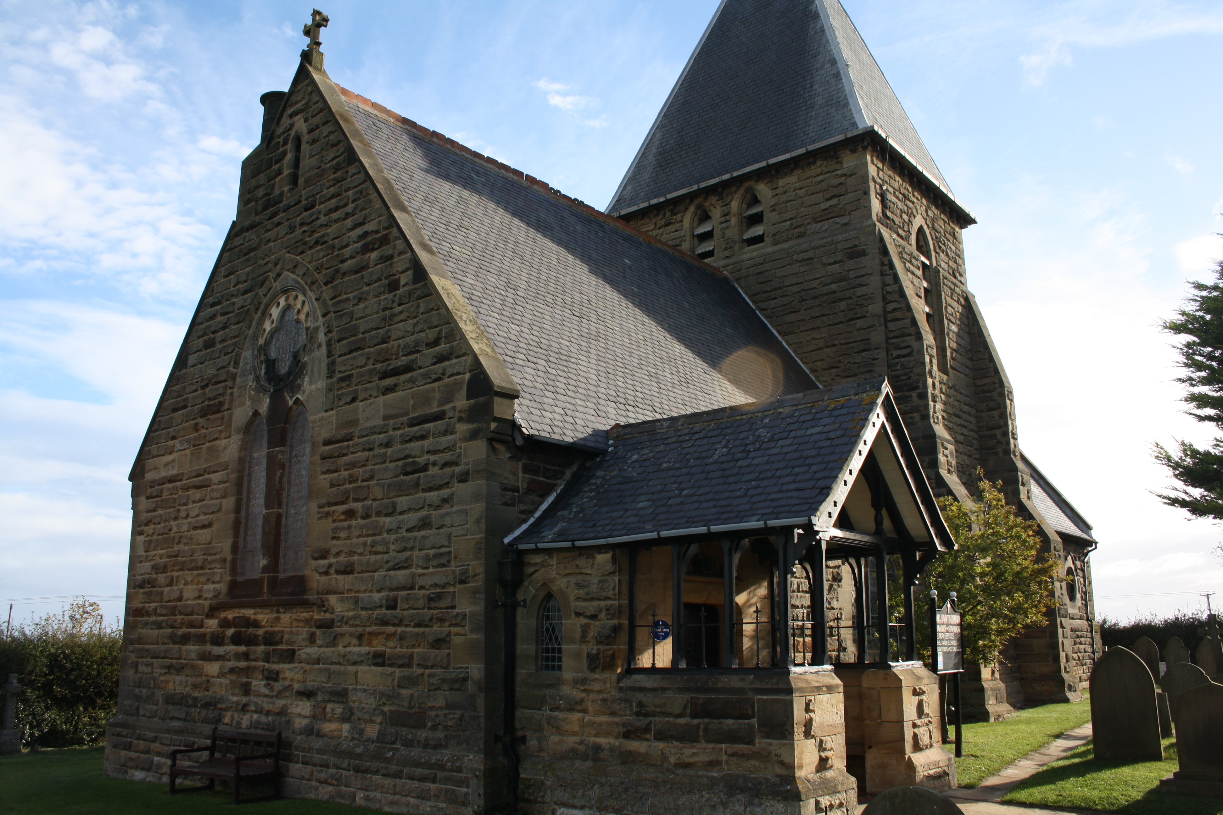 All Saints' parish church, Hawsker, North Yorkshire, seen from the southwest